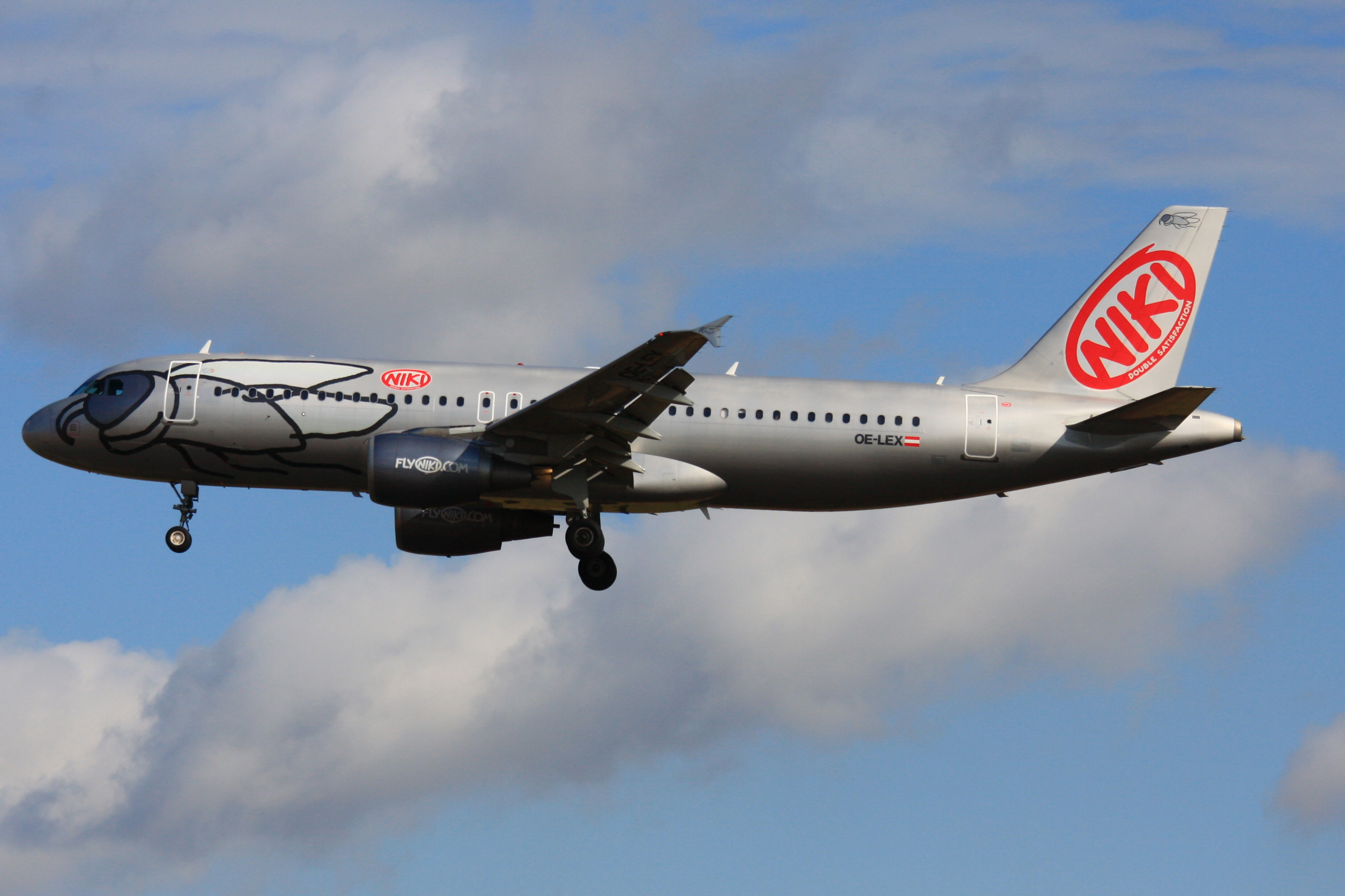 An Airbis A320 of Niki landing at Frankfurt Airport